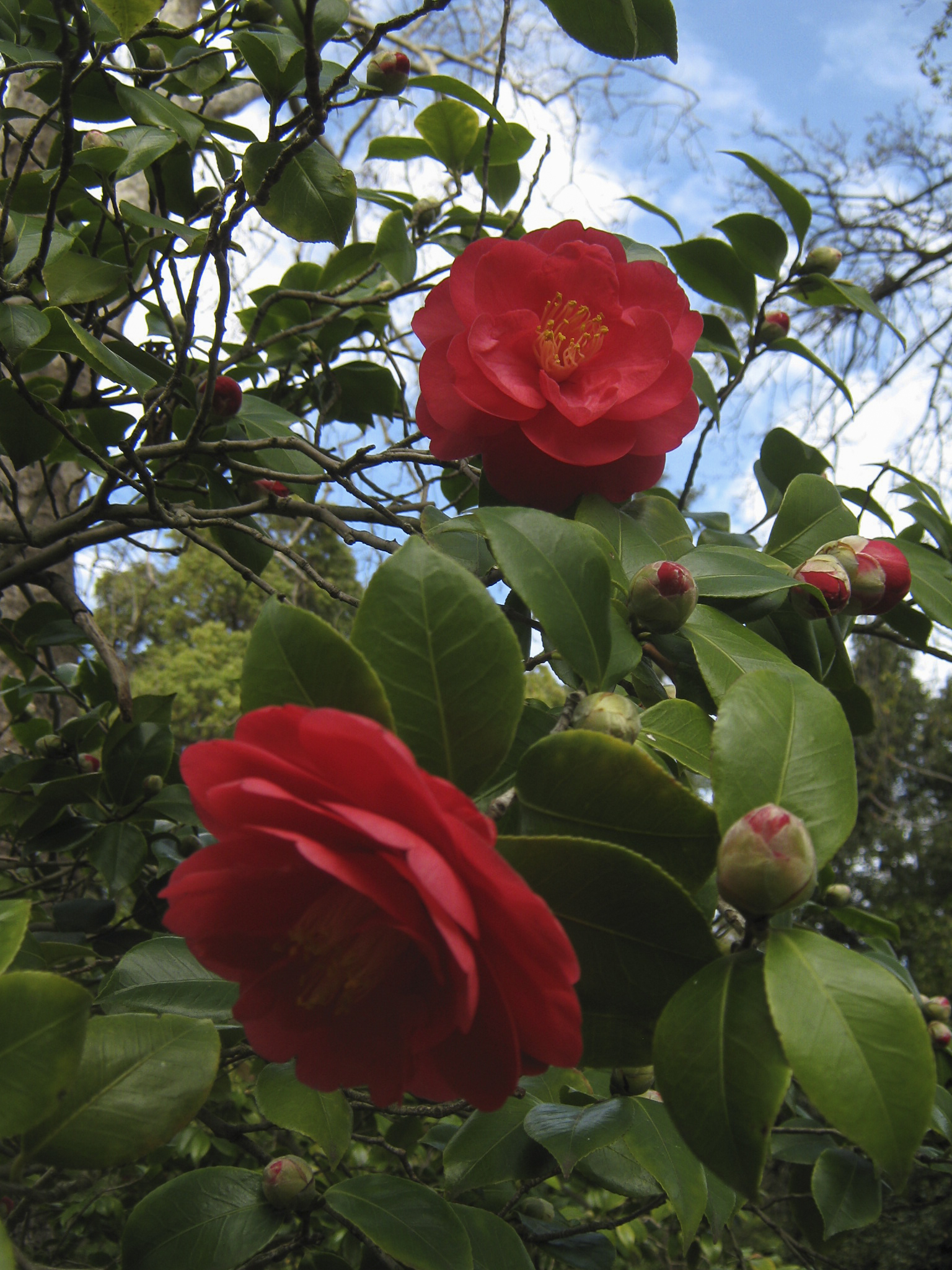 Camellia japonica 'Somersby' by E.G. Waterhouse 1944; photographed in the Royal Botanic Gardens, Melbourne